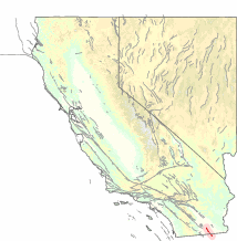 USGS map of the Imperial Fault Zone — in Imperial County, Southern California. A system of geological right lateral-moving strike slip faults located in the in the Imperial Valley region, along the border of the United States and Mexico. It is connected to the San Andreas Fault system by the Brawley Seismic Zone.